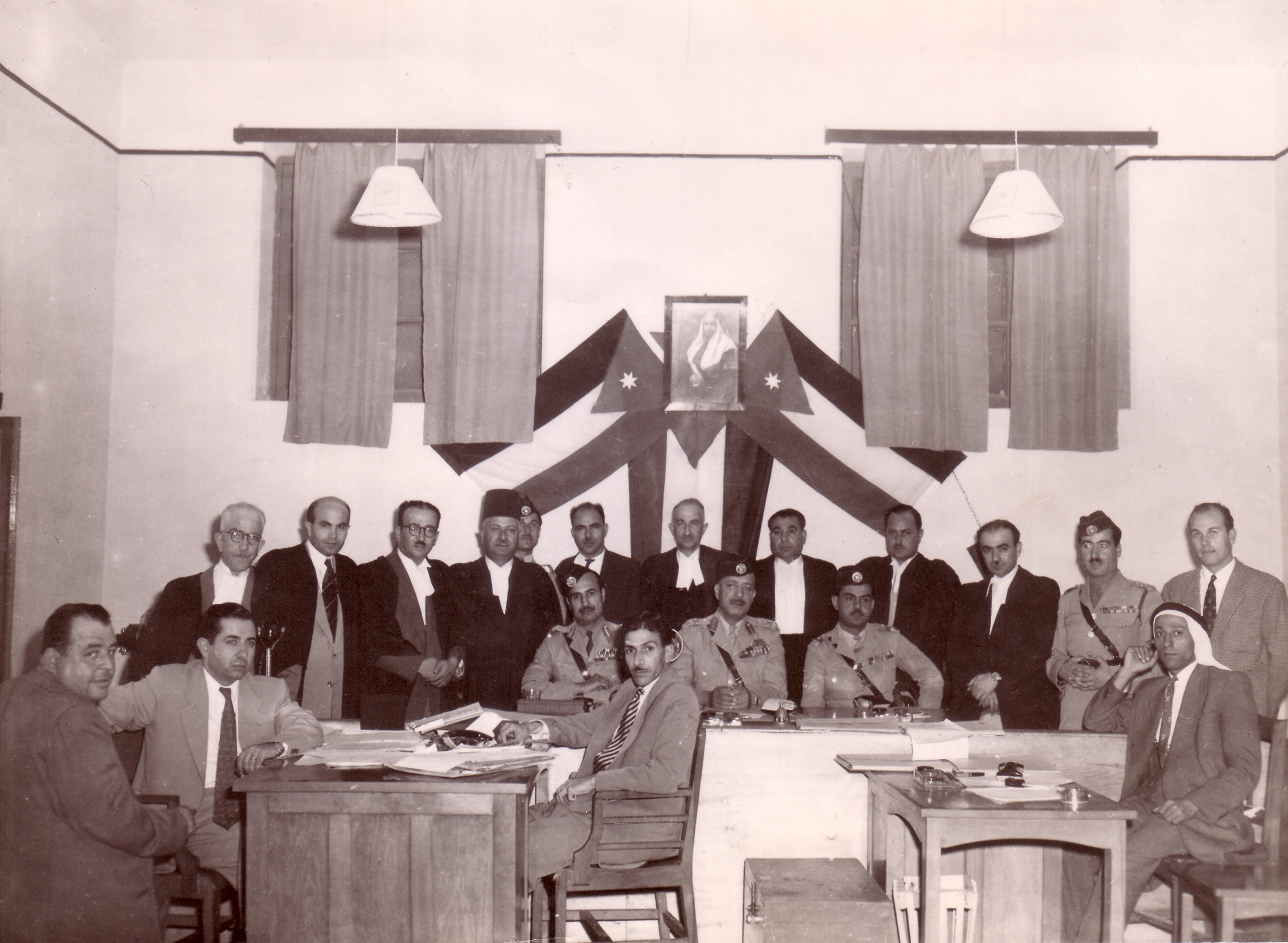 Omar Elwary as one of the lawyers defending a few of the accused in the King Abdullah I of Jordan murder trial on 18/8/1951.